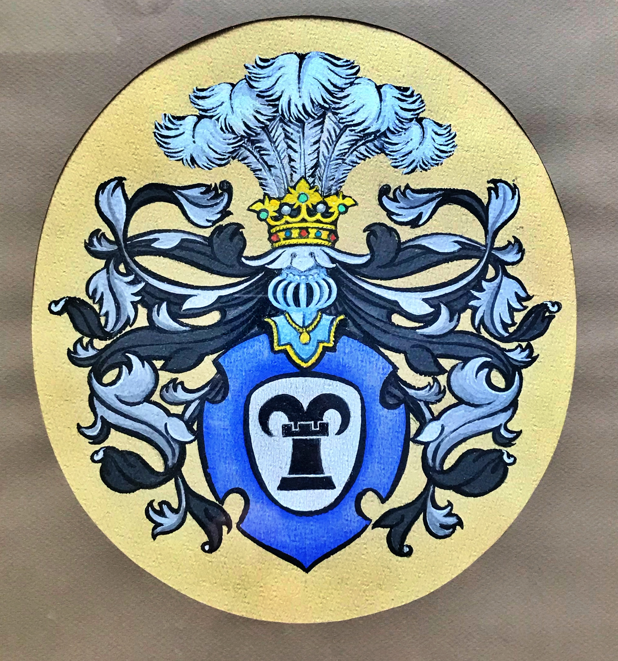 Coat-of-arms of the Polish nobility — Roch (also known as: Pirzchała, Pierzchała)